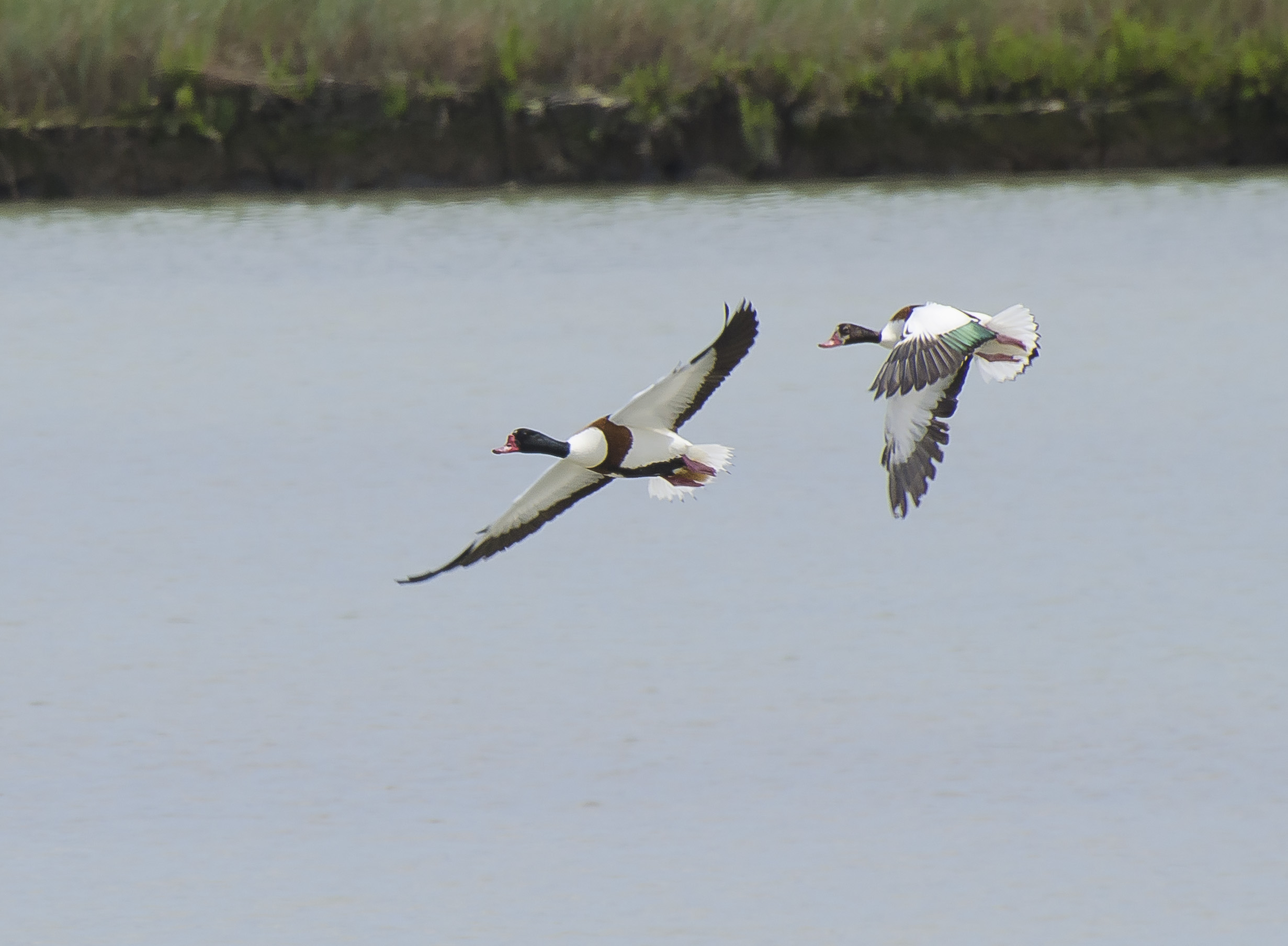 Common shelducks (Tadorna tadorna) in flight, image taken in the salt marshes in the lagoon of Venice, Italy